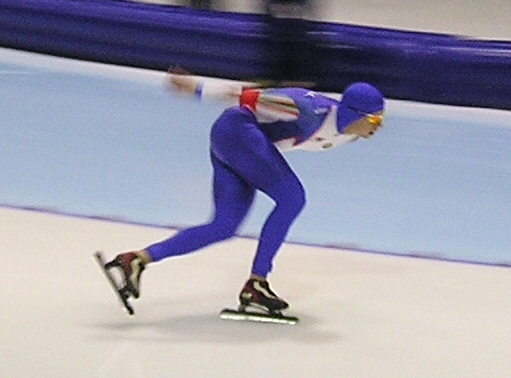 Matteo Anesi (ITA) in action at the WCh Allround in Thialf (Heerenveen, The Netherlands)